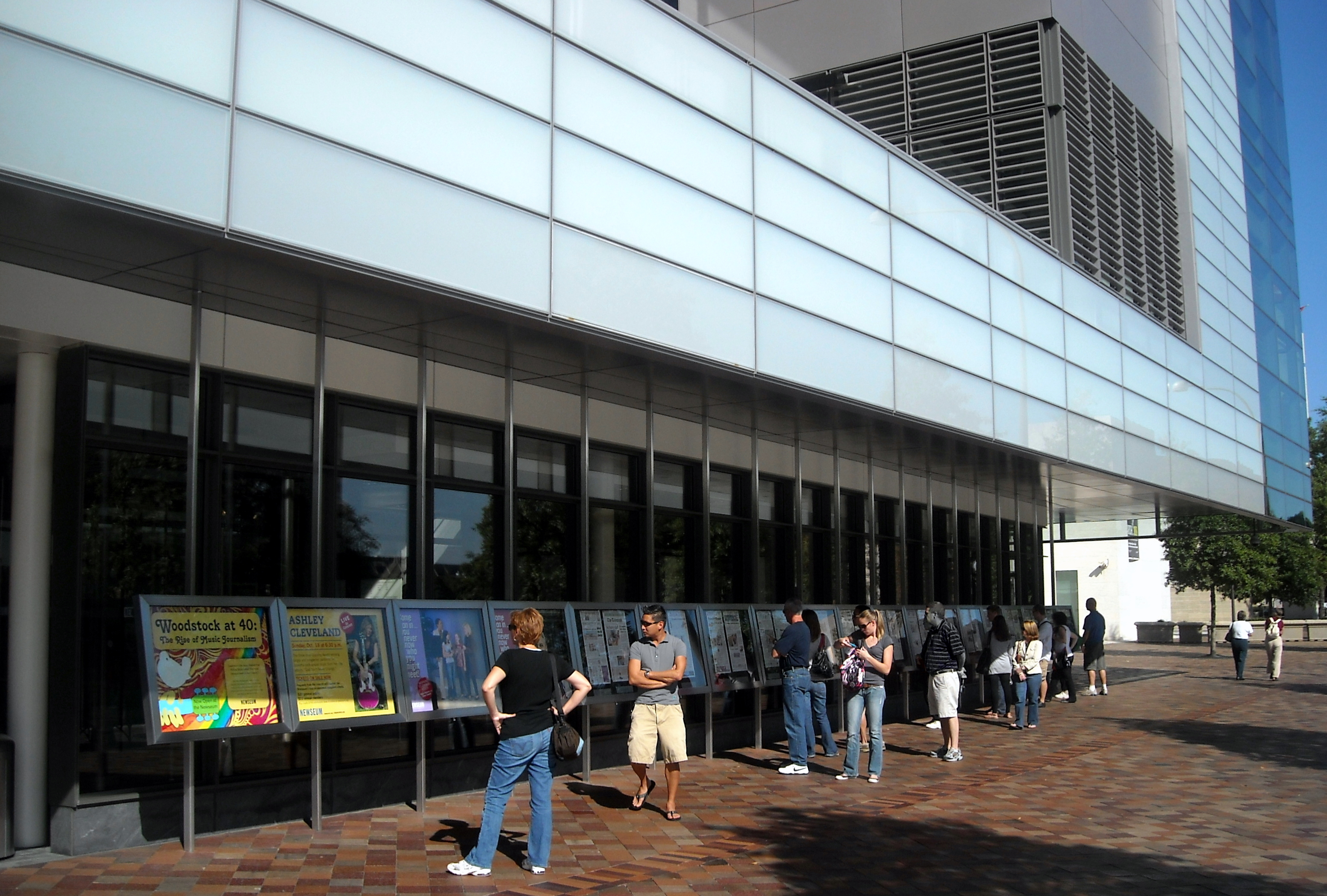 Front pages of newspapers, displayed at the Newseum, an interactive museum of news and journalism, located in Washington, D.C.